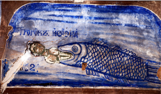 Saint Petka Church in Crešnevo Fresco